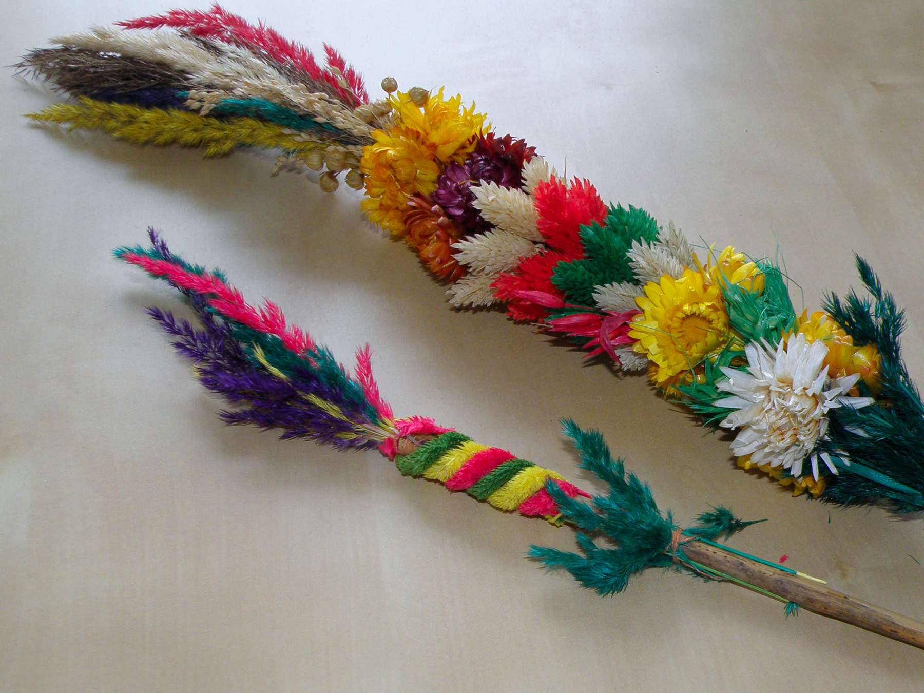 Easter palms